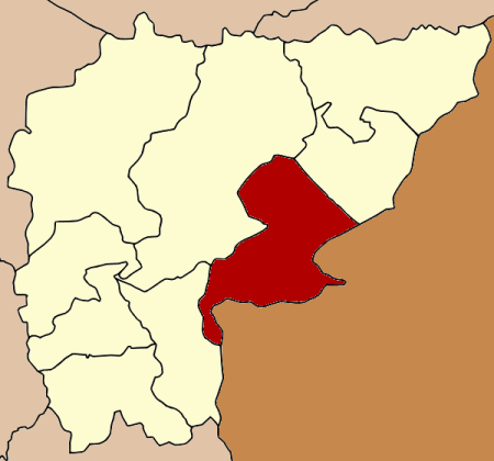 Map of Amphoe Aranyaprathet in Sa Kaeo province, Thailand (Geocode 2706)